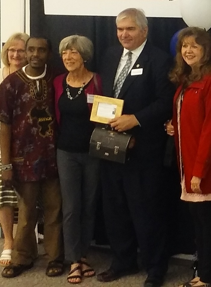 Dave Larson (born 1958) is an American lawyer and jurist from the U.S. State of Washington.